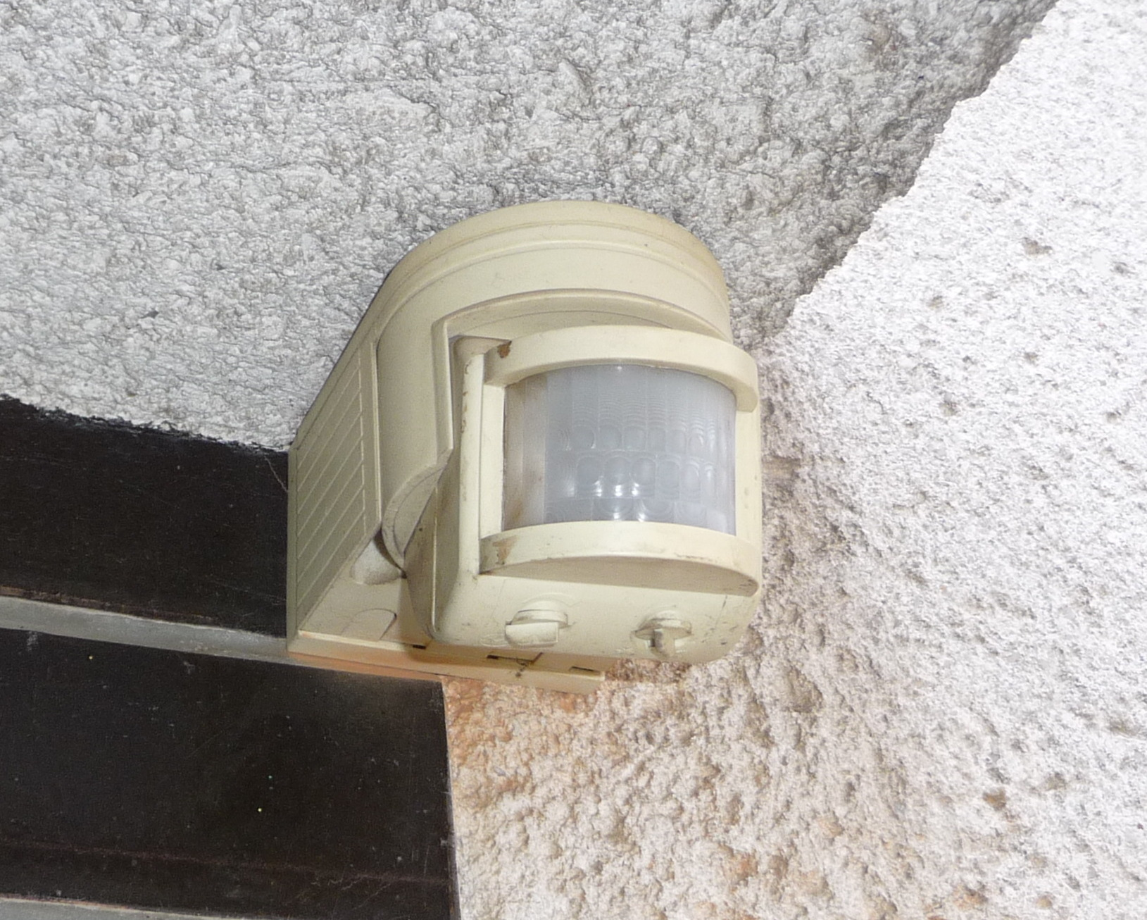 A motion detector attached to a light